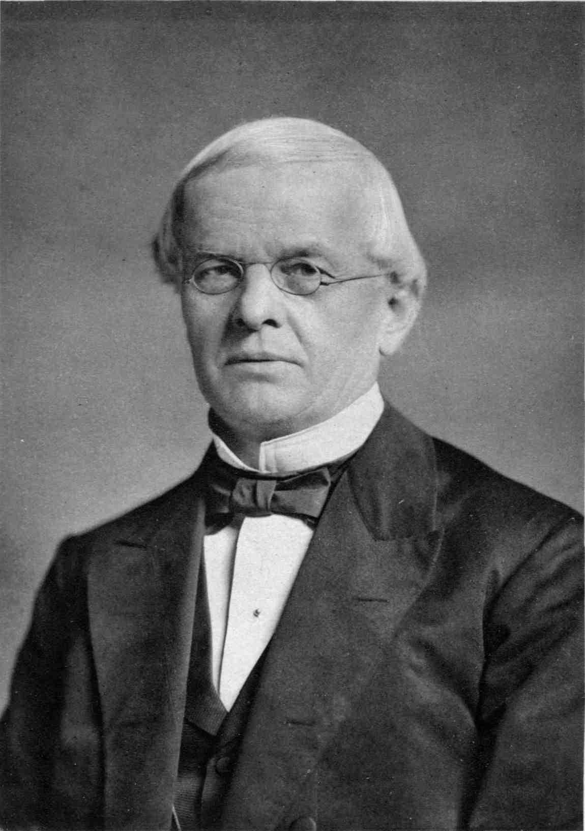 Portrait of August Dillman.